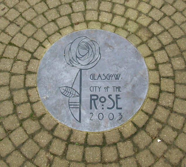 City of the Rose This ornate pavement within the rose garden commemorates the "Glasgow City of the Rose 2003" event.